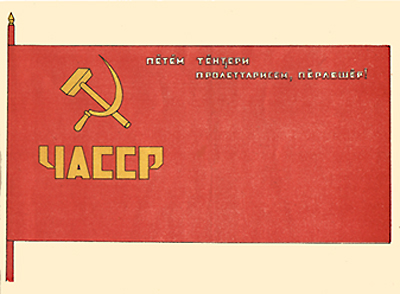 The flag of ChASSR (1931).